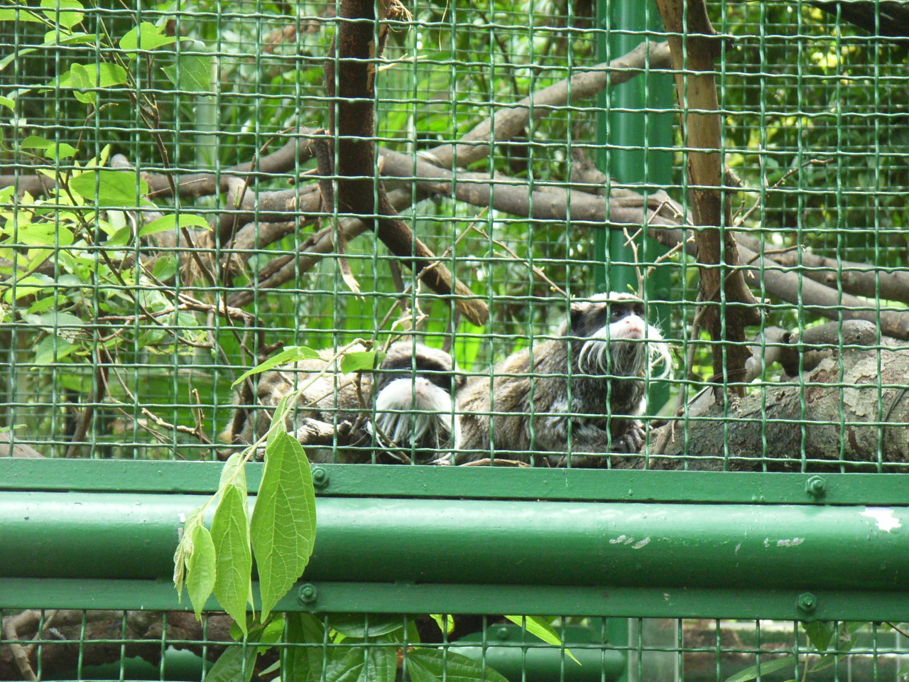 香港動植物公園 Hong Kong Zoological and Botanical Gardens NBG626